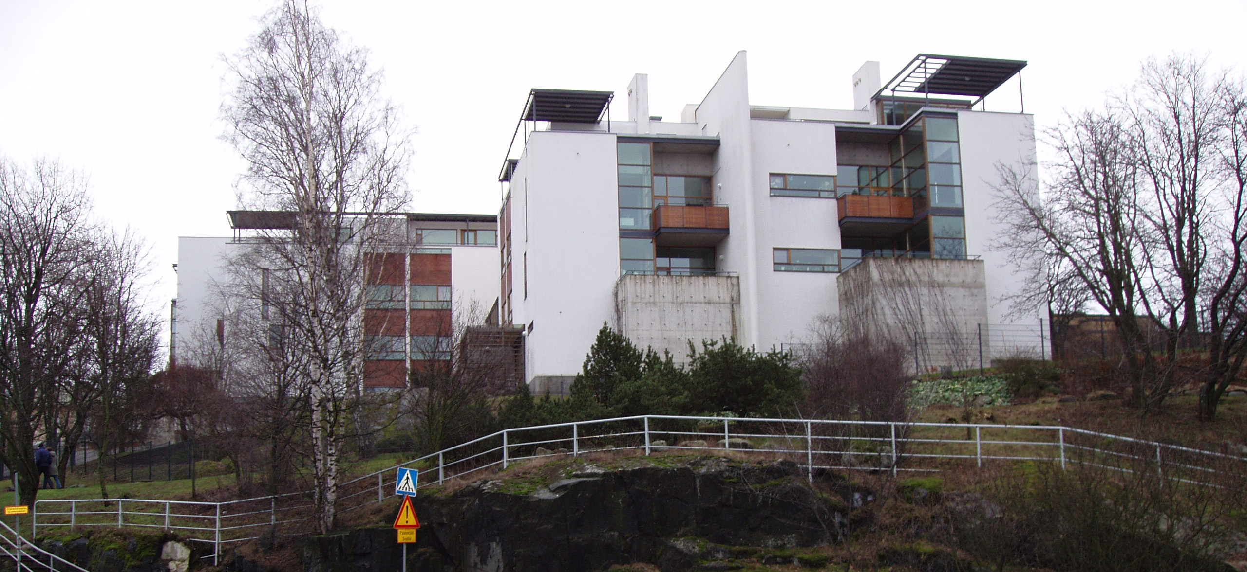 Kristian Gullichsen, Olympus Housing, Helsinki Photo by TTKK